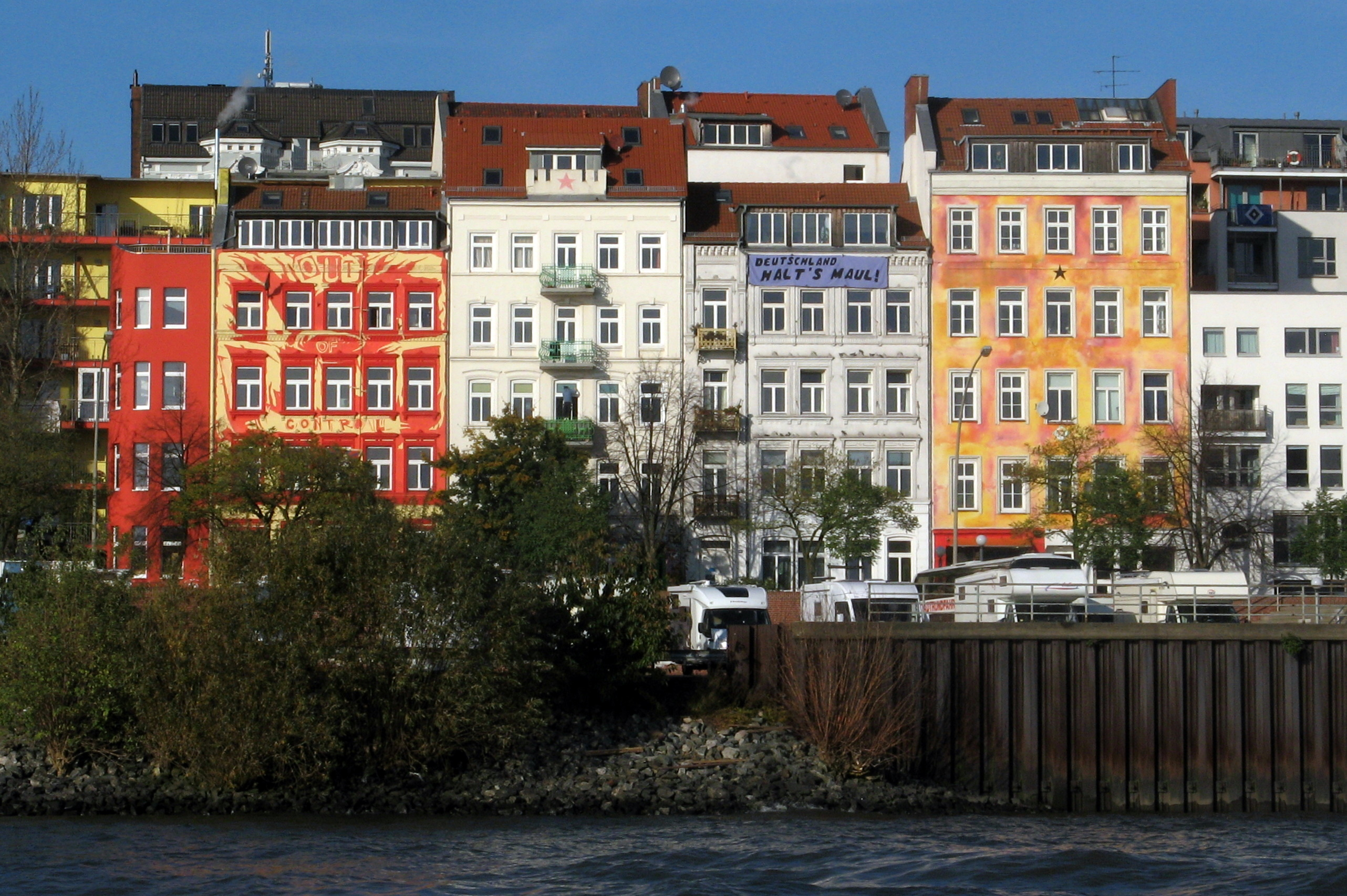 "Hafenstraße" buildings in Hamburg, Germany